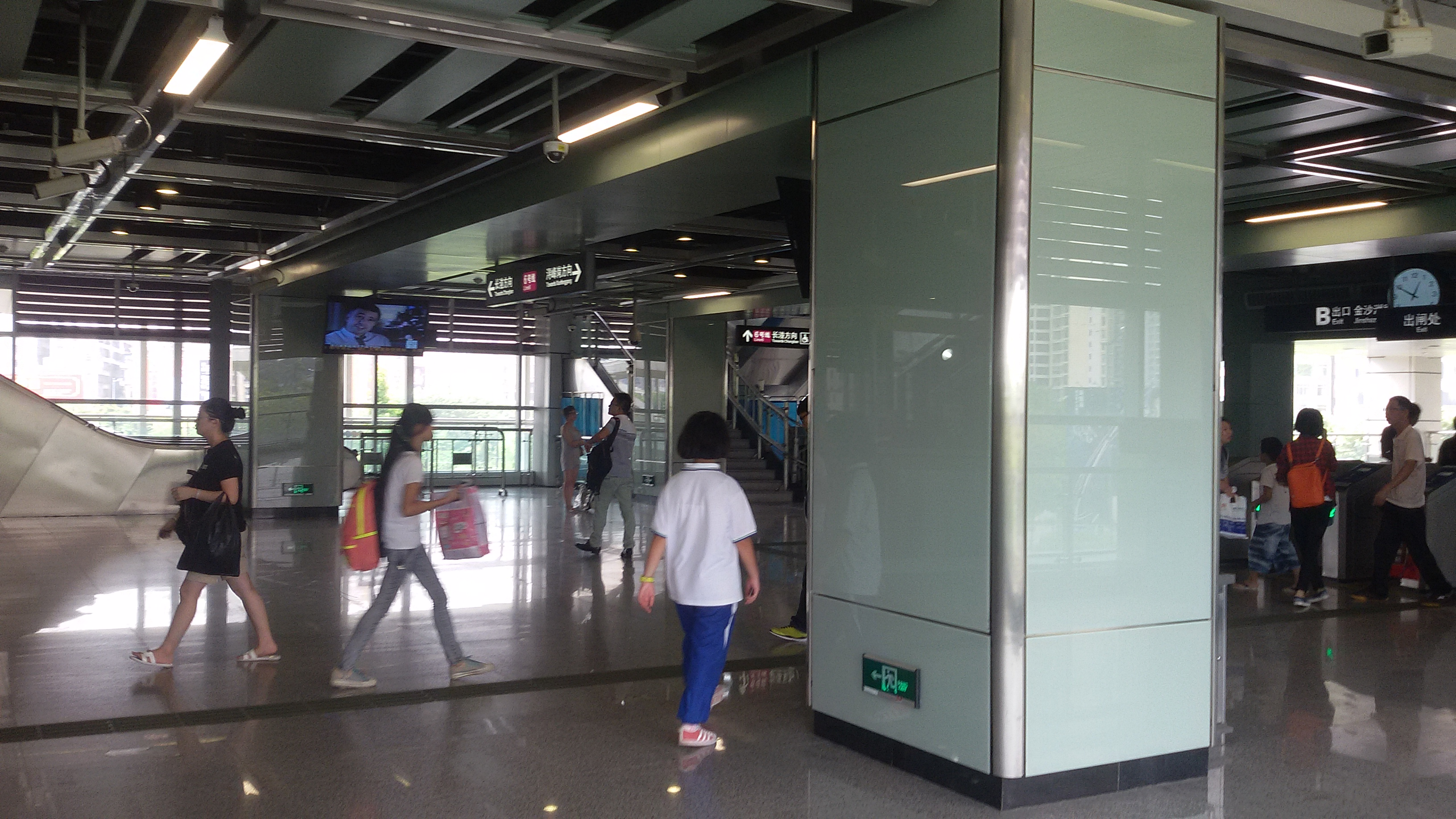 Station Concourse for Shabei Station, Guangzhou Metro. 粵語: 廣州地鐵，沙貝站嘅站廳。